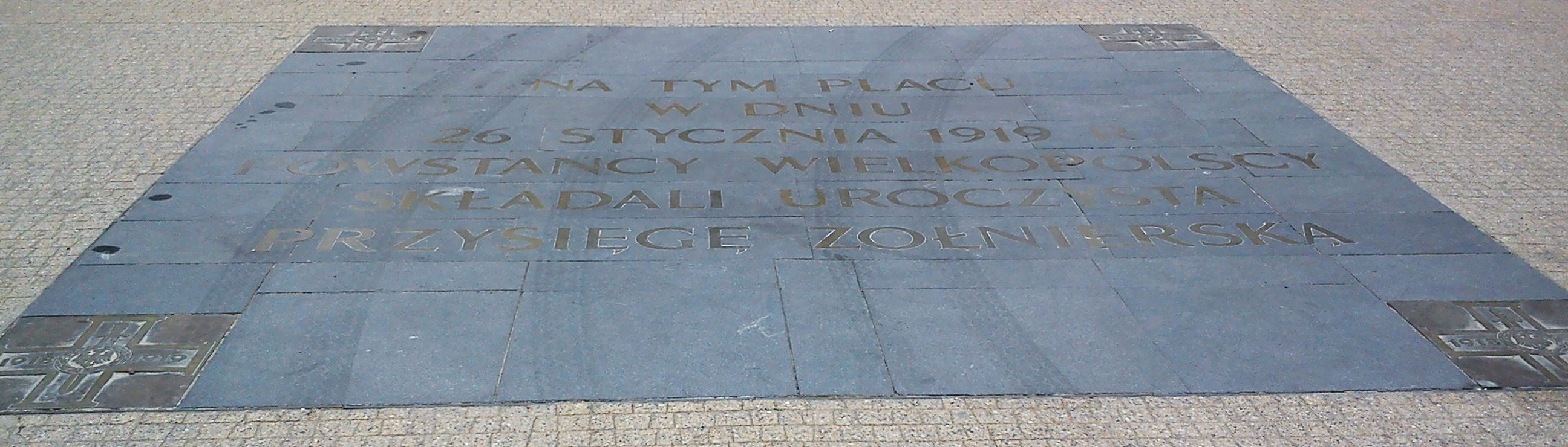 Wielkopolskie Uprising Oath Plaquw, Poznan, Wolnosci Square.